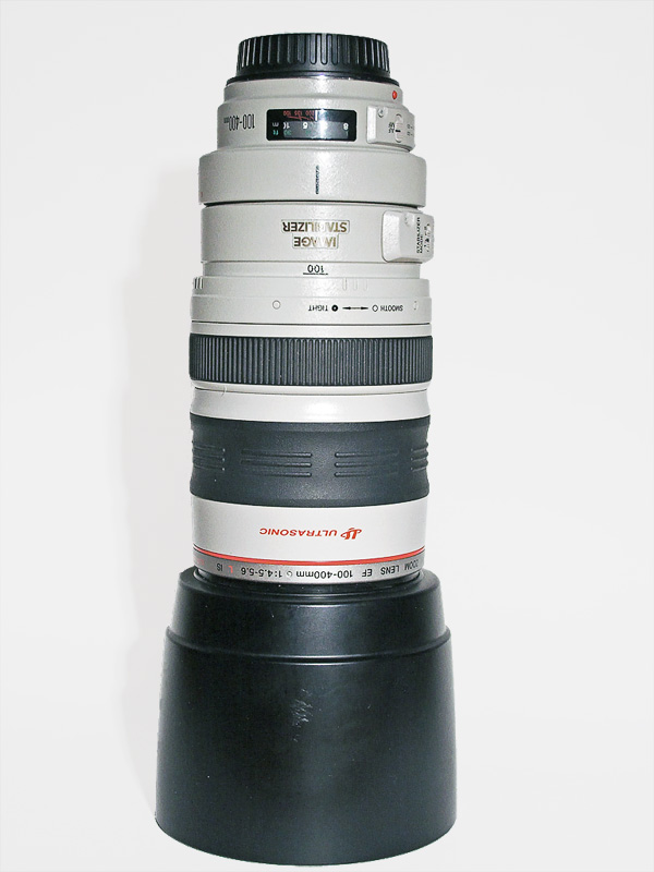 Canon 100-400mm f/4.5-5.6L IS lens Taken by Schuyler Shepherd(Unununium272). Canon 350D, 18-55mm f/3.5-5.6.